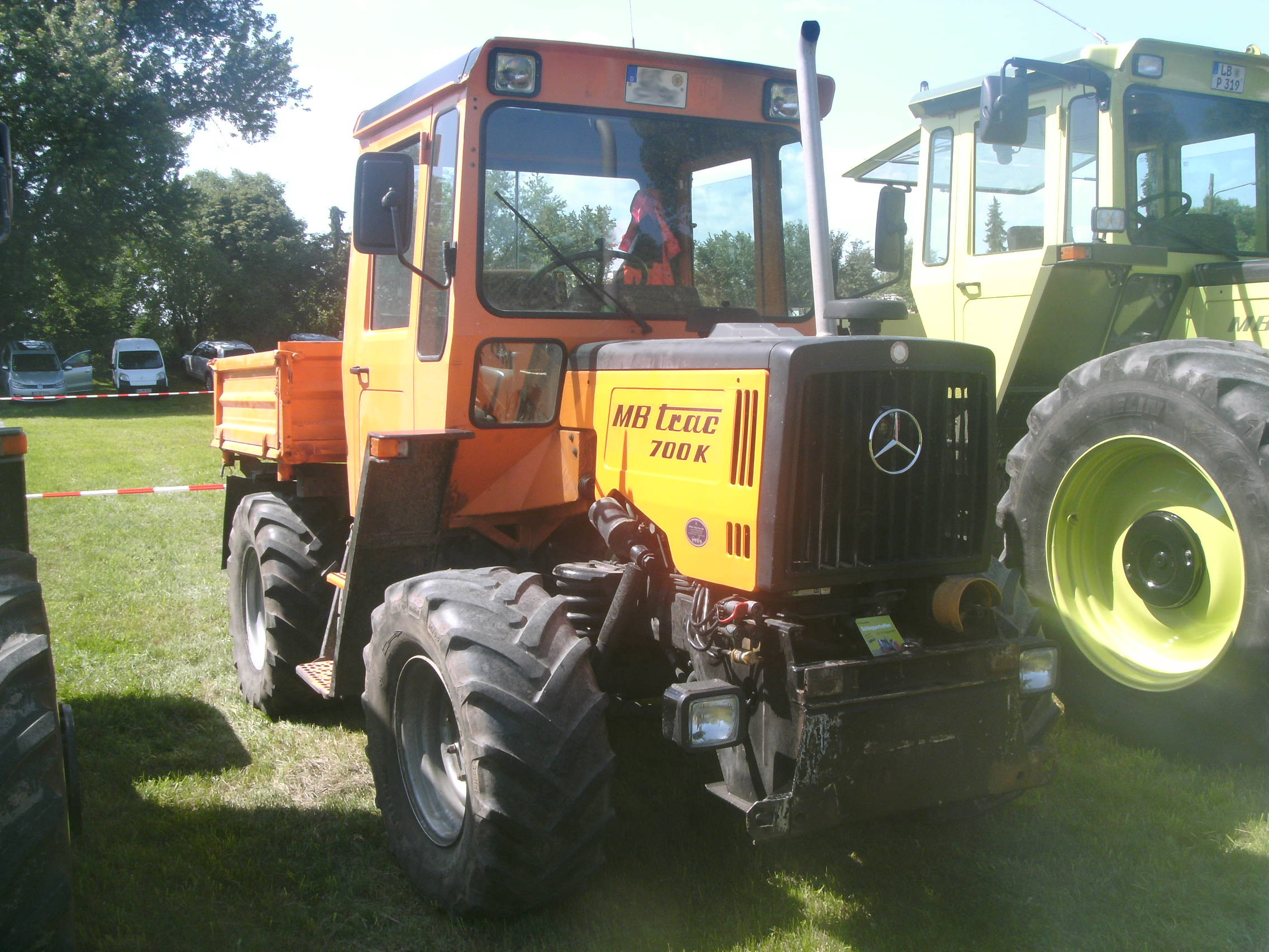 MB trac 700K